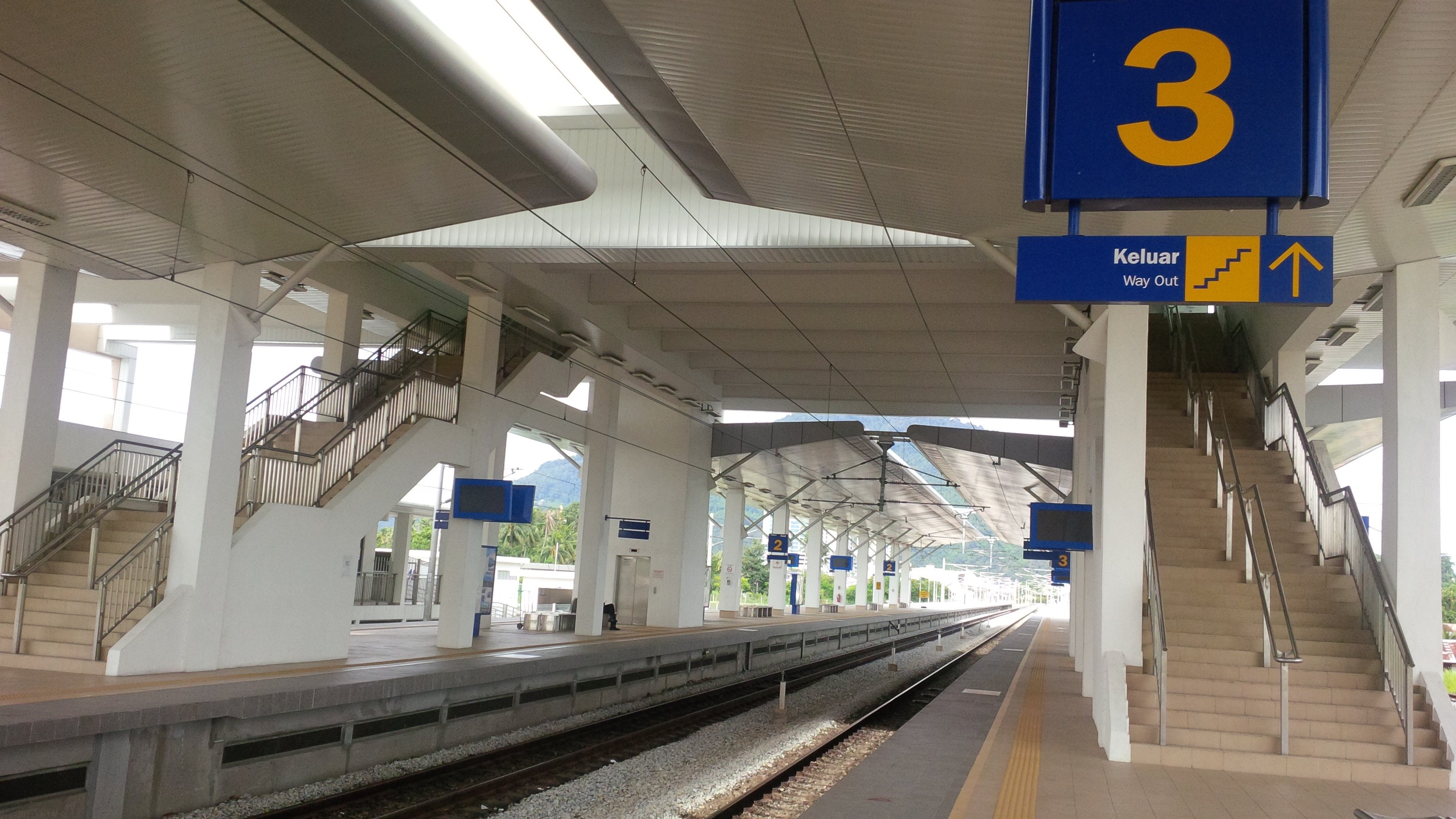 View of the platform area of the new Bukit Mertajam Railway Station in August 2015.